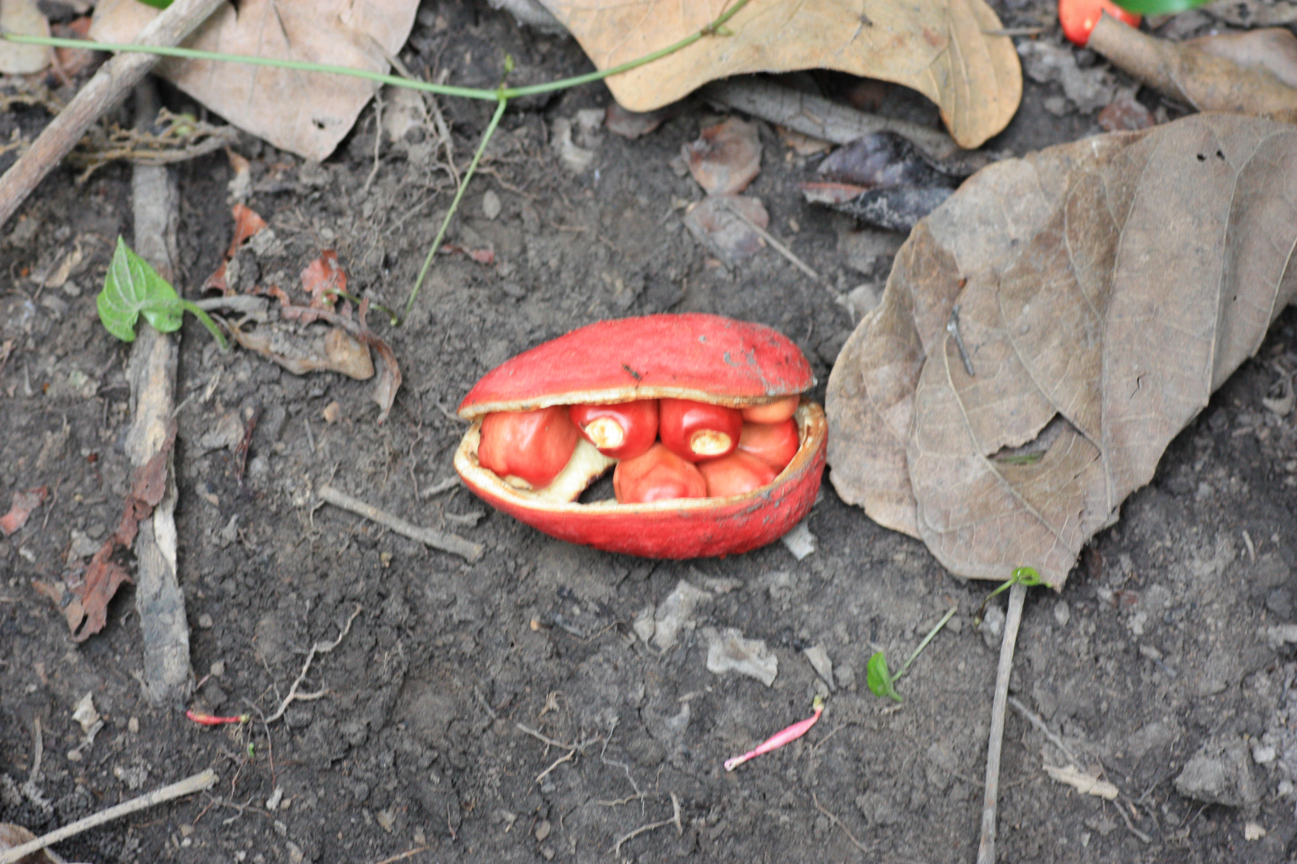 fruit of Cola cordifolia, SW Burkina Faso